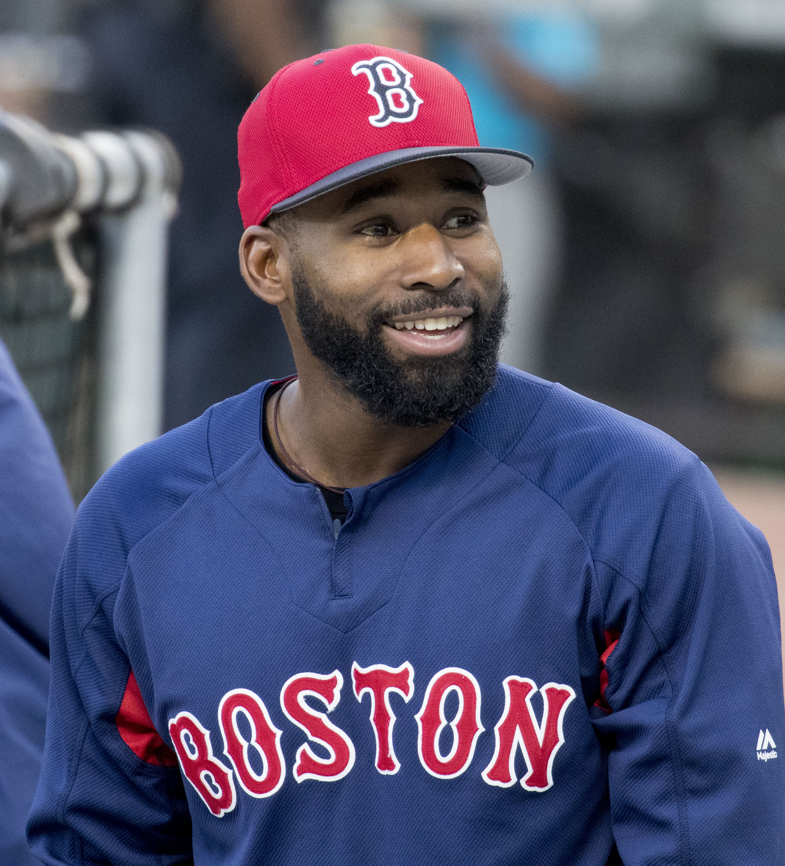 Red Sox at Orioles 9/20/17